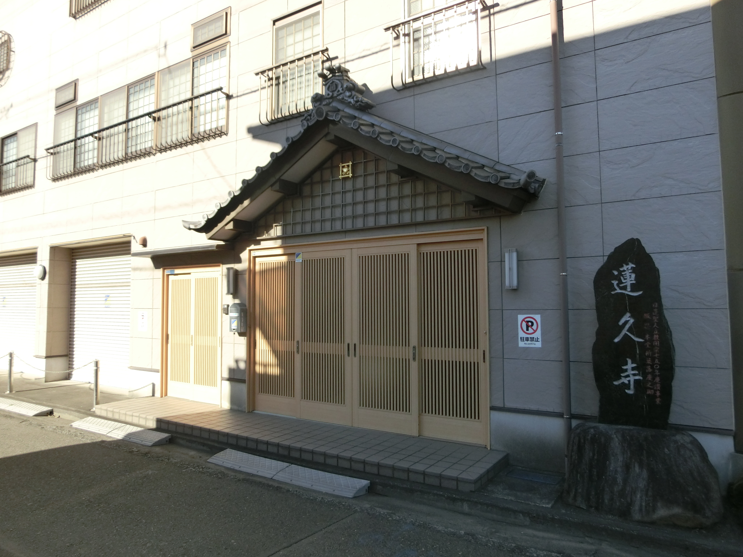 Renkyu-ji (Suruga-ku, Shizuoka)